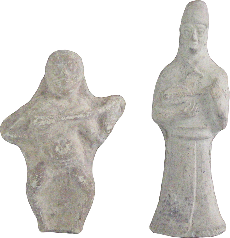 Human pottery figurine, Susa, first half of 2nd mil BC. Sukkalmah era. National Museum of Iran. On the right is a lute player. beige ceramics, molded. H: 9 cm, W: 3 cm. Inv.:2194